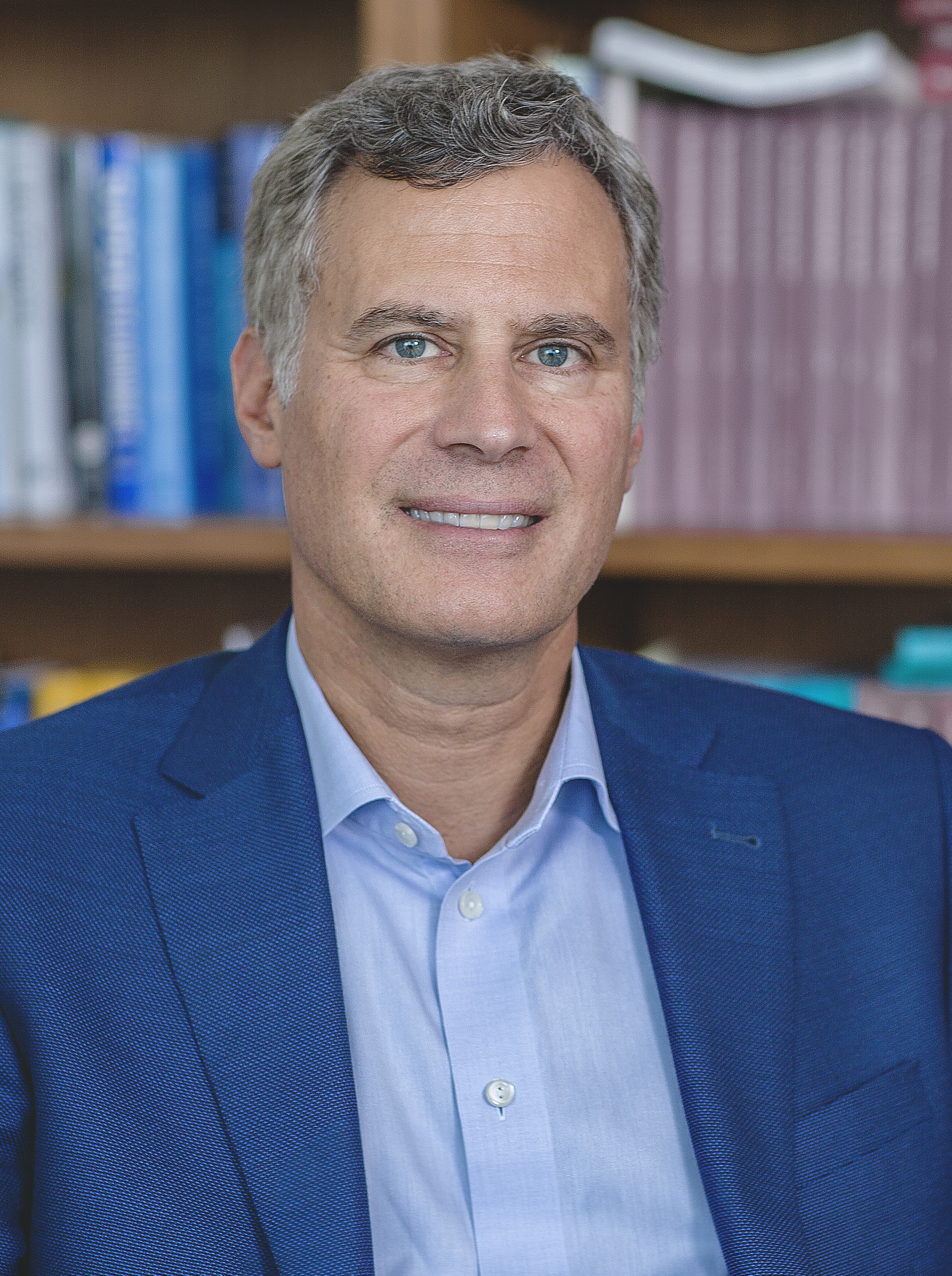 Alan Krueger, Bendheim Professor of Economics and Public Policy, in his office in the Louis A. Simpson International Building.